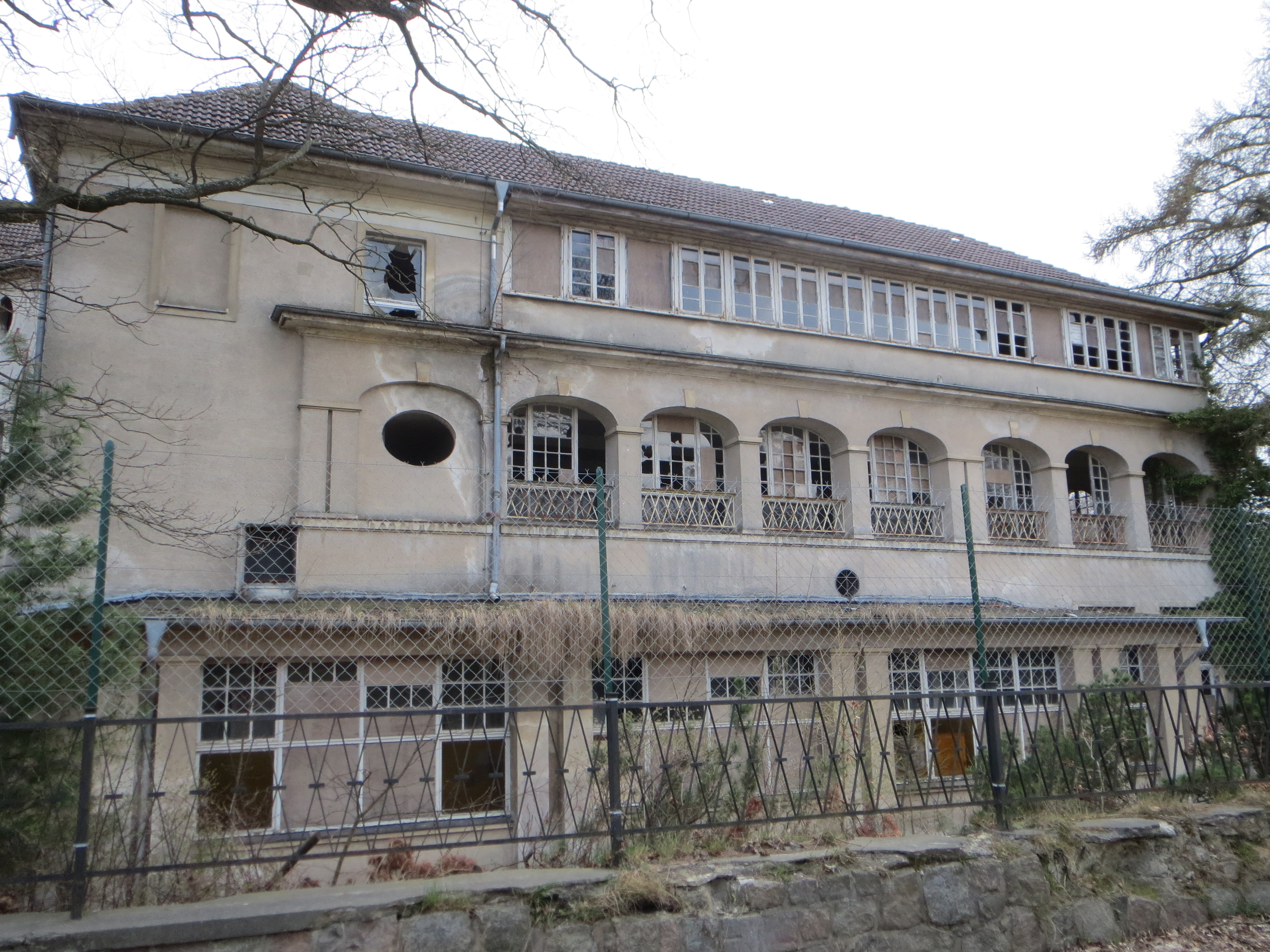 Zinnowitz Kindersanatorium Erich Steinfurth